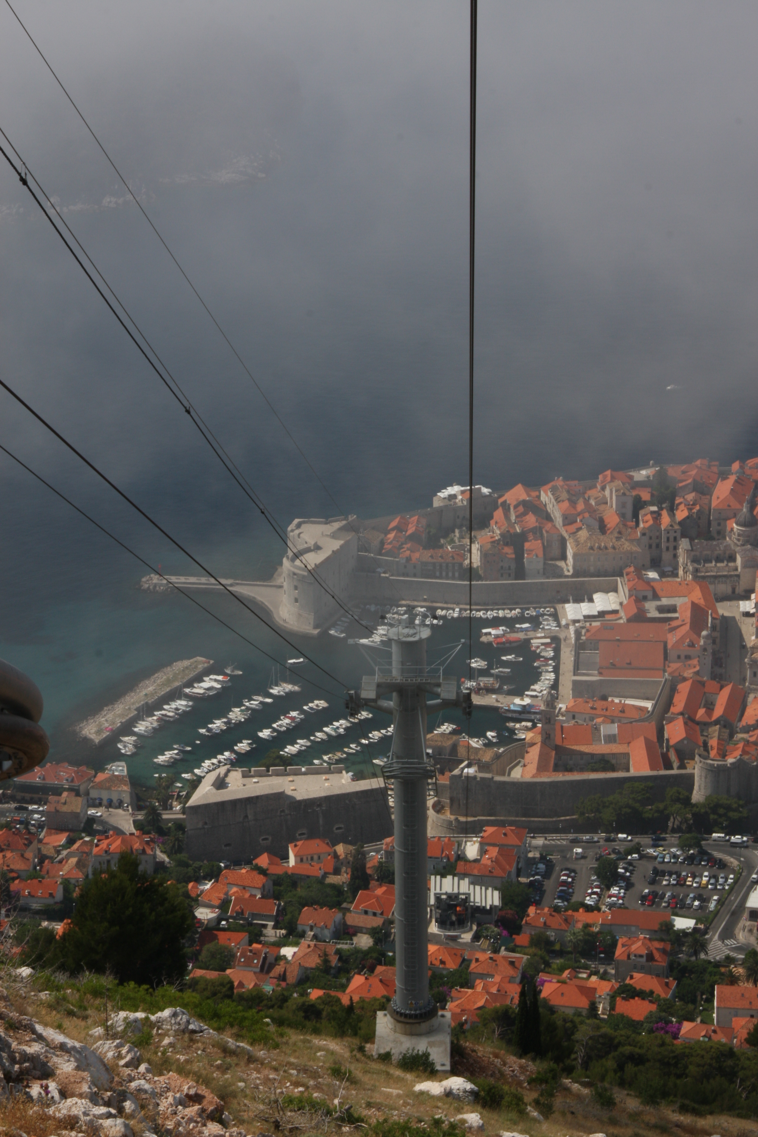 View from Cable Car on Dubrovnik, Croatia 2011.